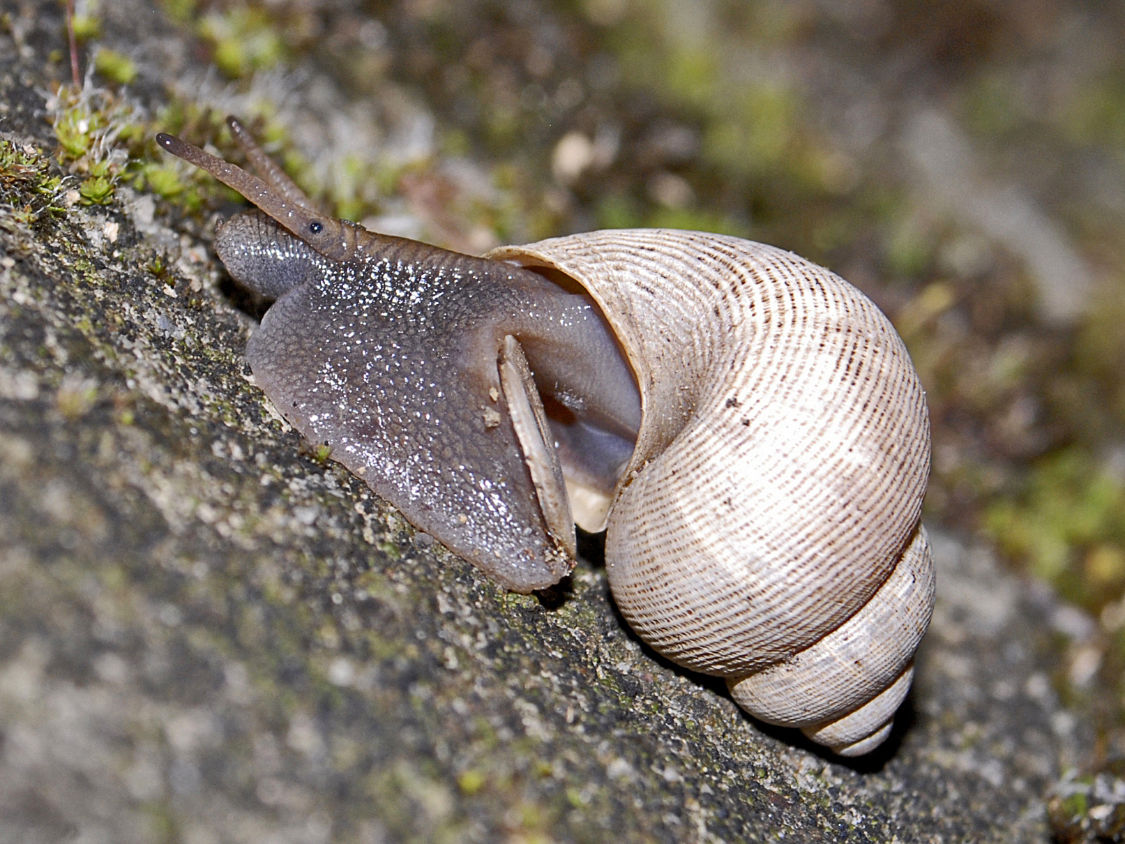 Pomatias elegans. Piani di Praglia, Genova, Italy